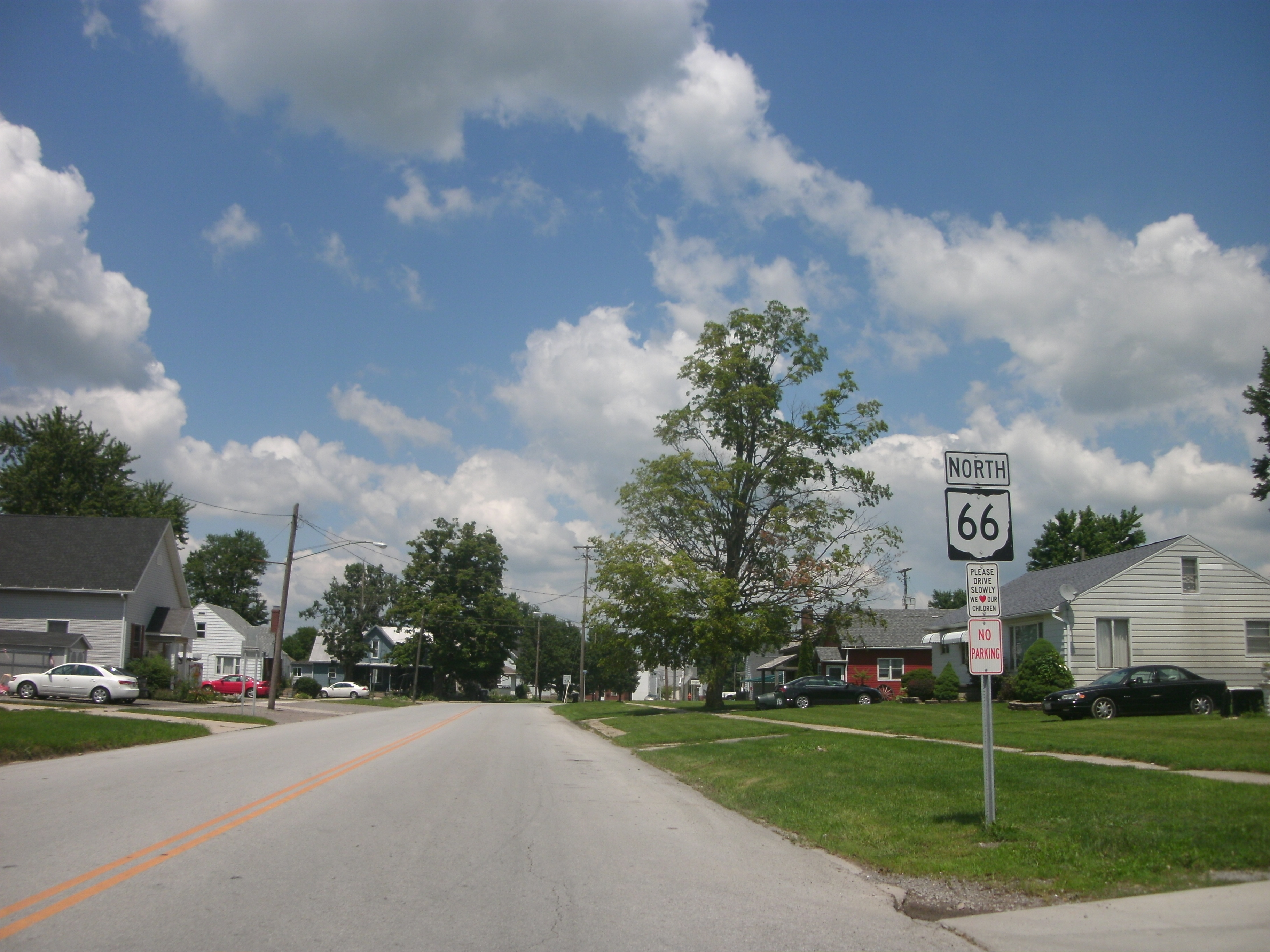 State Route 66 through the village of Spencerville, Ohio.